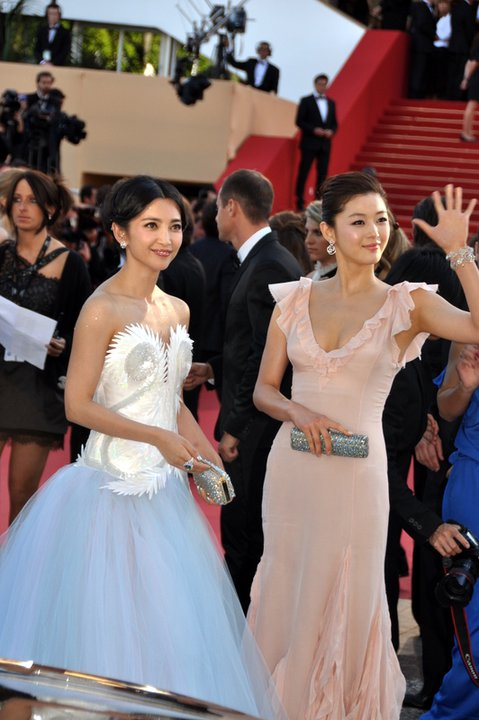 Li Bingbing and Jun Ji-hyun at the Cannes film festival